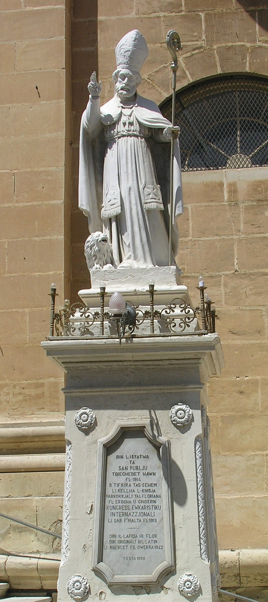 The statue of saint Publius in Floriana